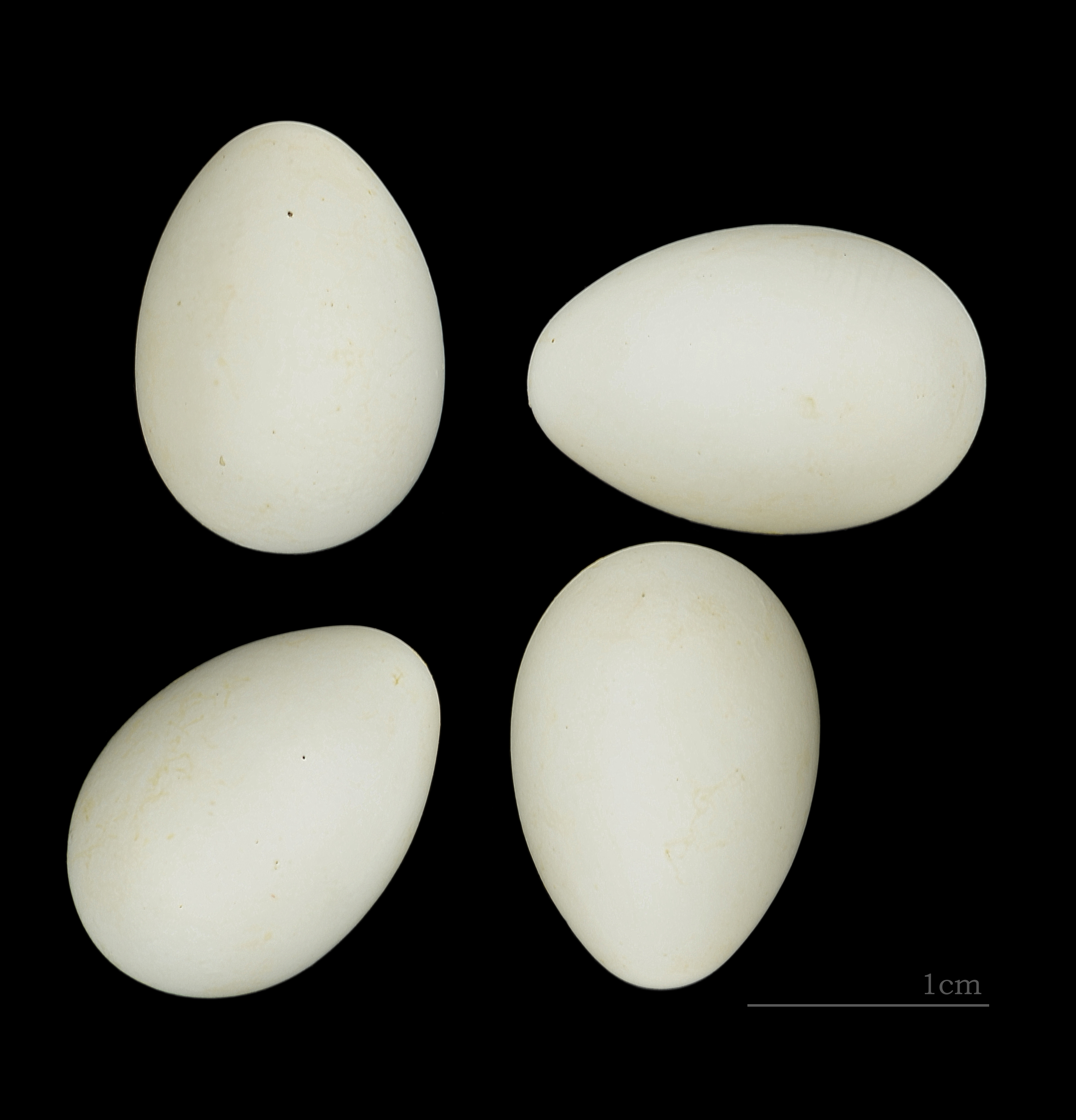 Egg of Brown-throated Martin Collection of Henri Heim de Balsac /Jacques Perrin de Brichambaut.